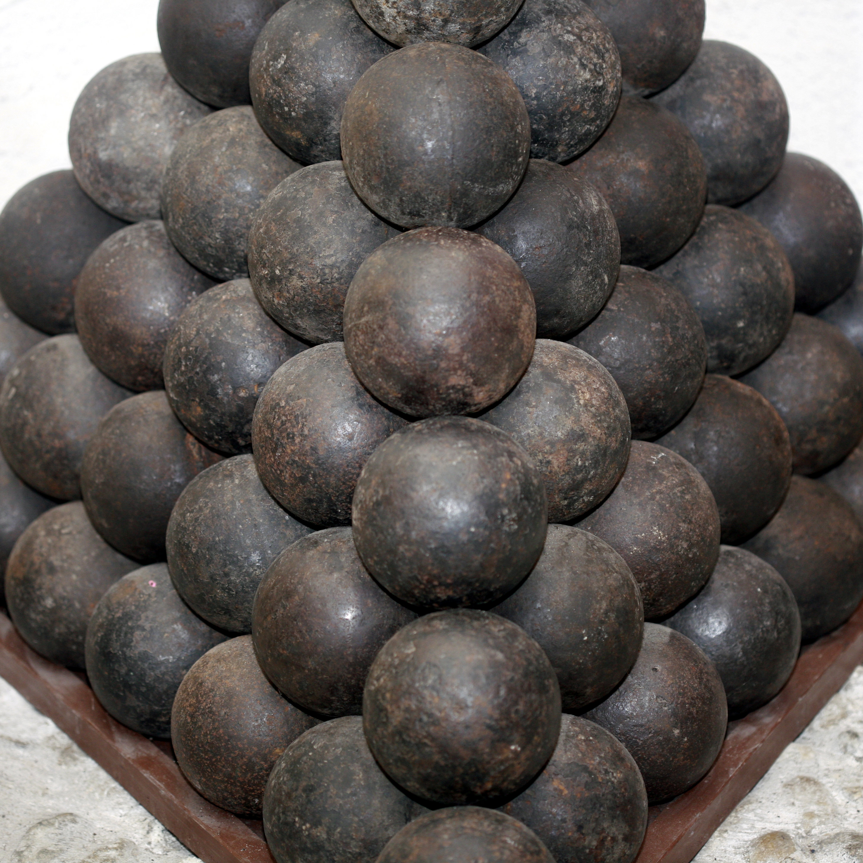 Pile of cannonballs (on the moon?)